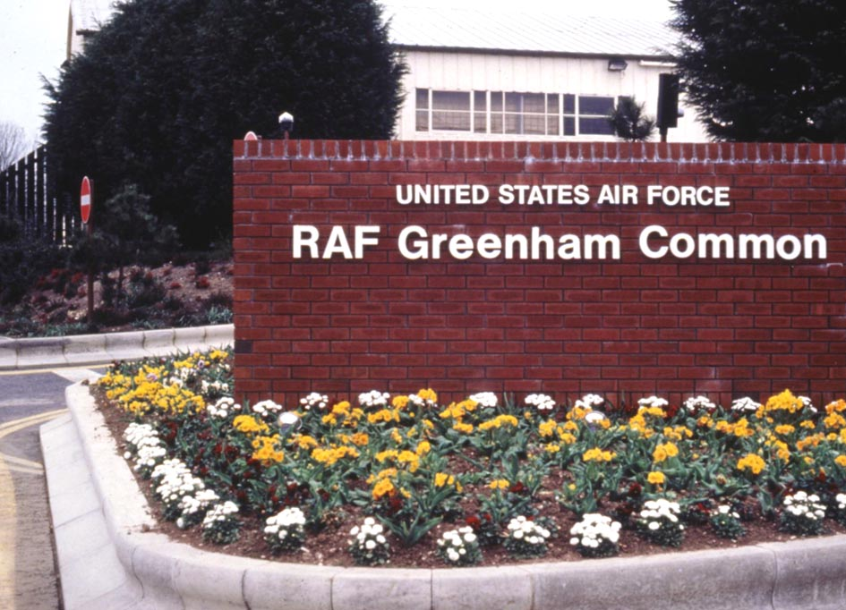 RAF Greenham Common welcome wall 1990. Newbury, Berkshire